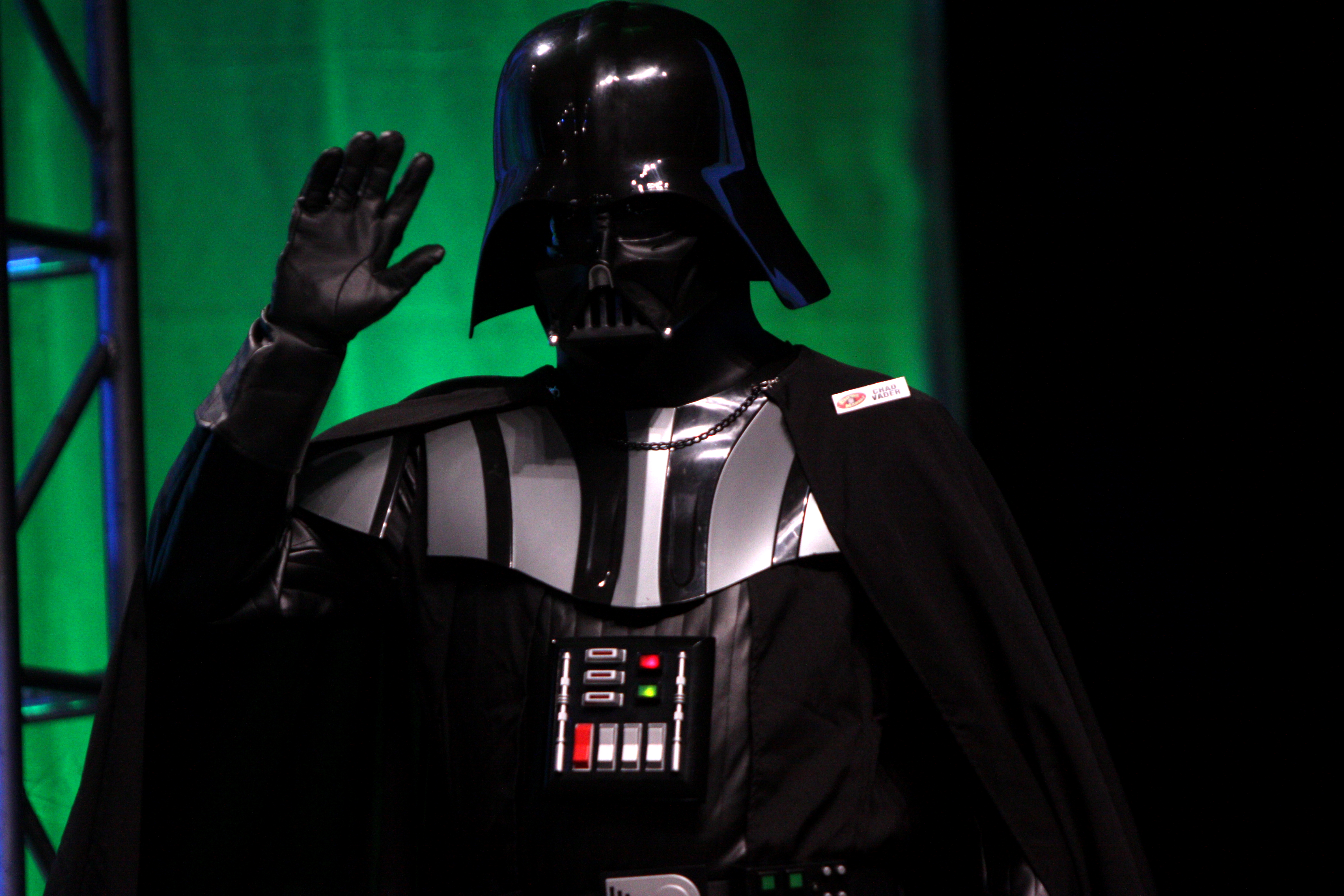 Chad Vadar speaking at VidCon 2012 at the Anaheim Convention Center in Anaheim, California.